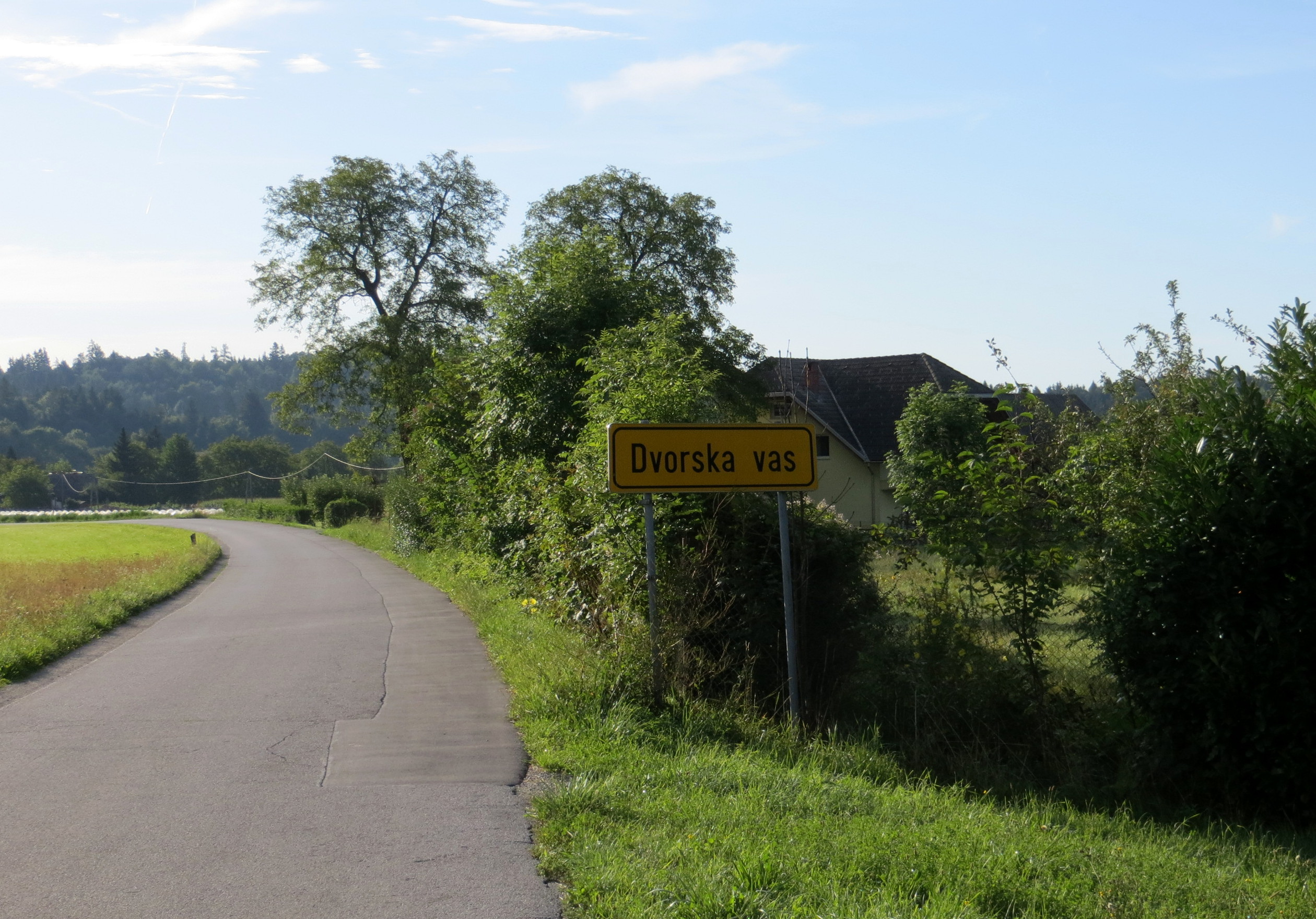 Dvorska Vas, Municipality of Radovljica, Slovenia